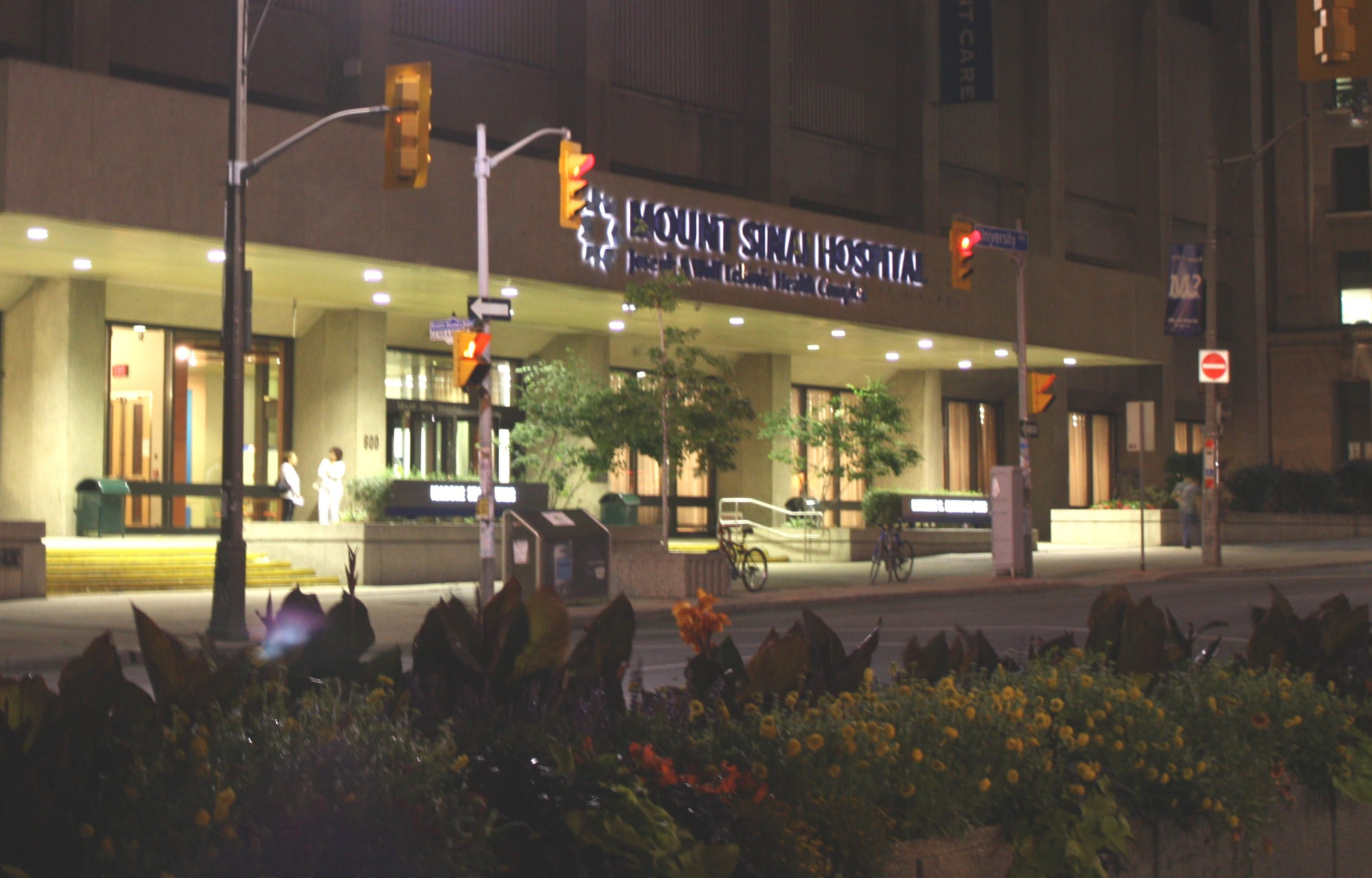 Mount Sinai Hospital in Toronto, Ontario, Canada. Vantage point: University Avenue facing north.